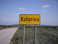 Kolarina is a village in Croatia.